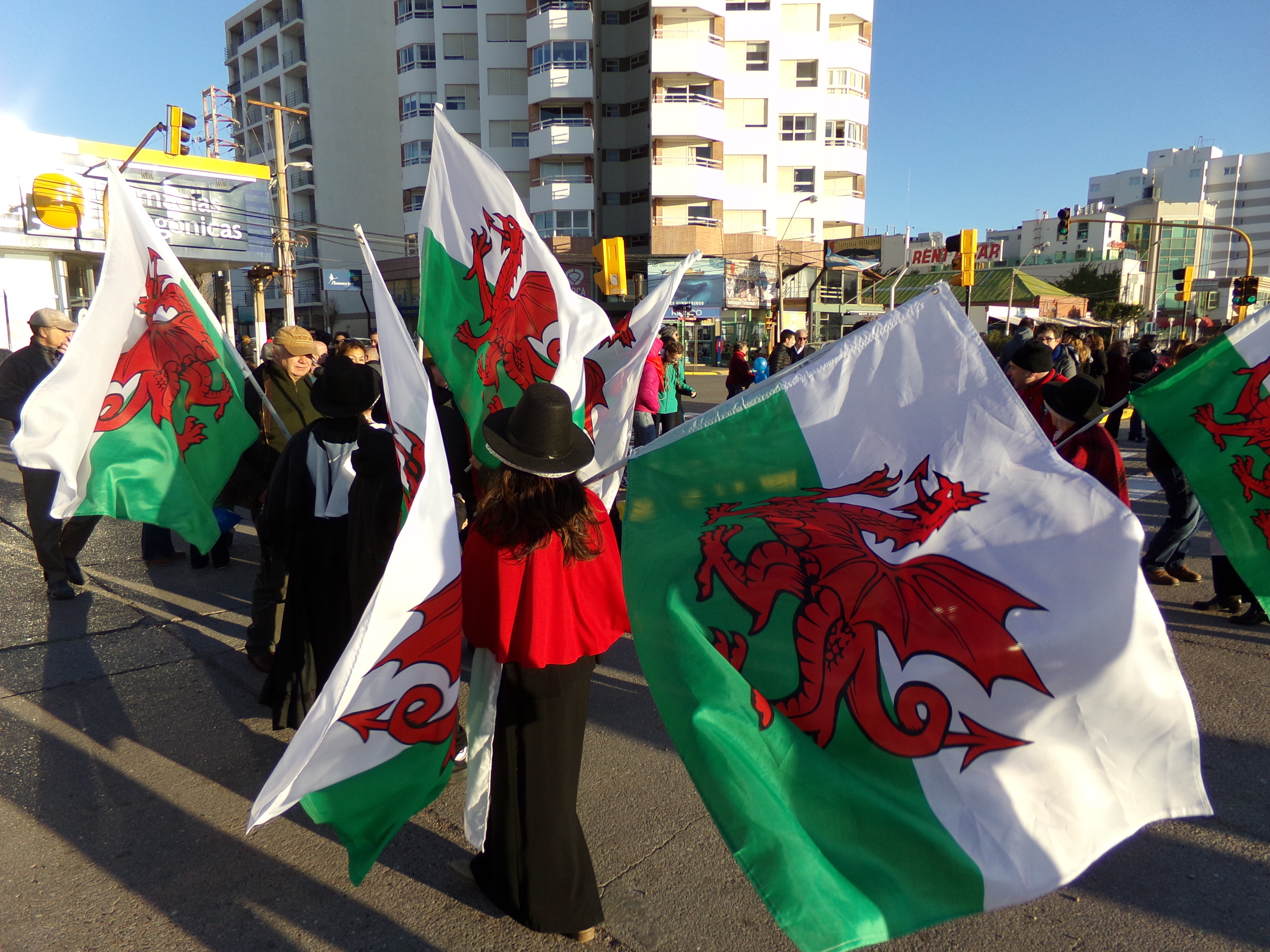 Barrel race joins the monument to the Welsh Woman with Punta Cuevas. There are two teams. Blue team represents the natives (Tehuelches) and Red team represents the Welsh.